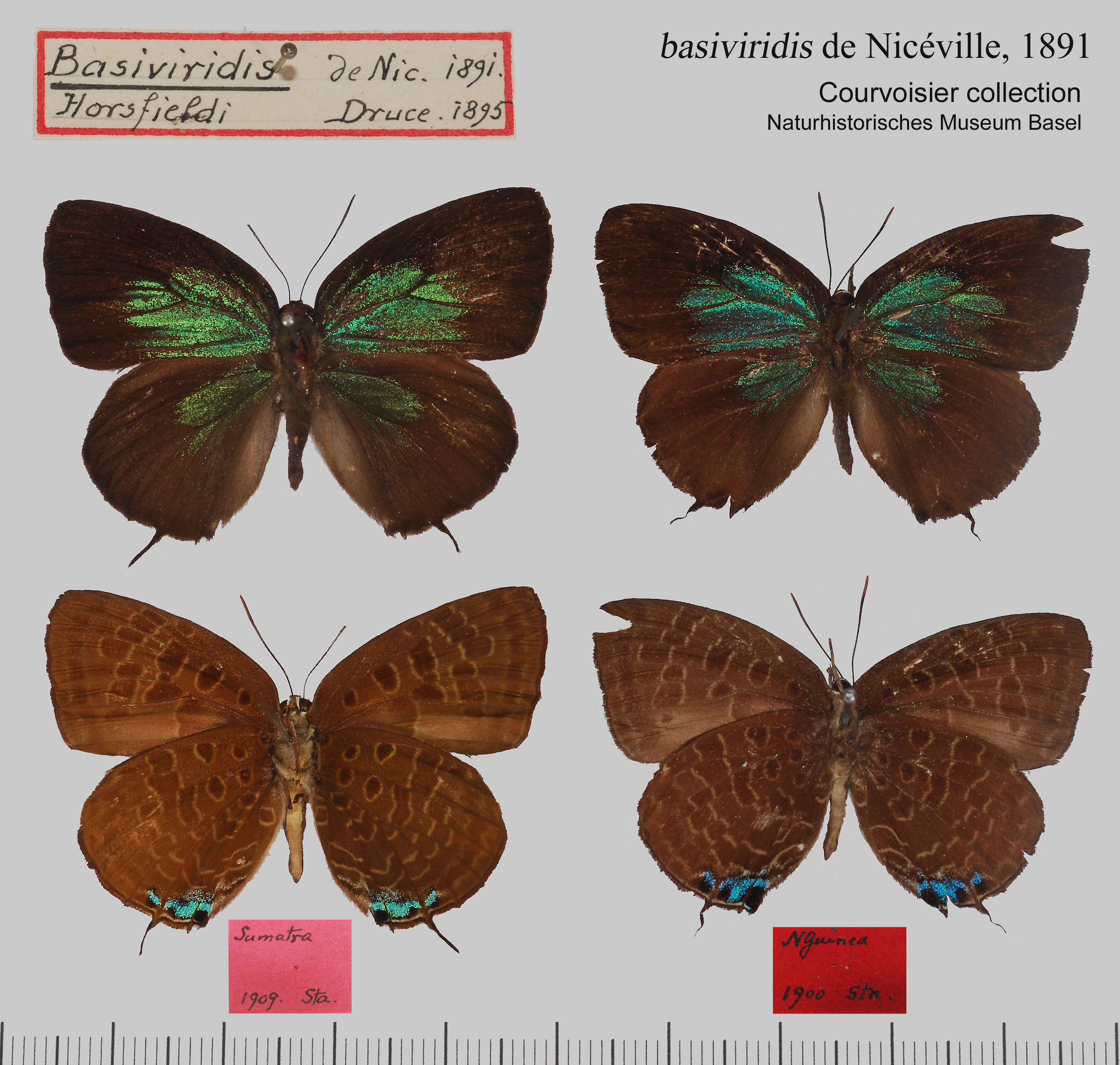 Arhopala horsfieldi basiviridis, males, Indonesia, Sumatra, ?New Guinea, Courvoisier collection NHM Basel, Alan Cassidy photo.